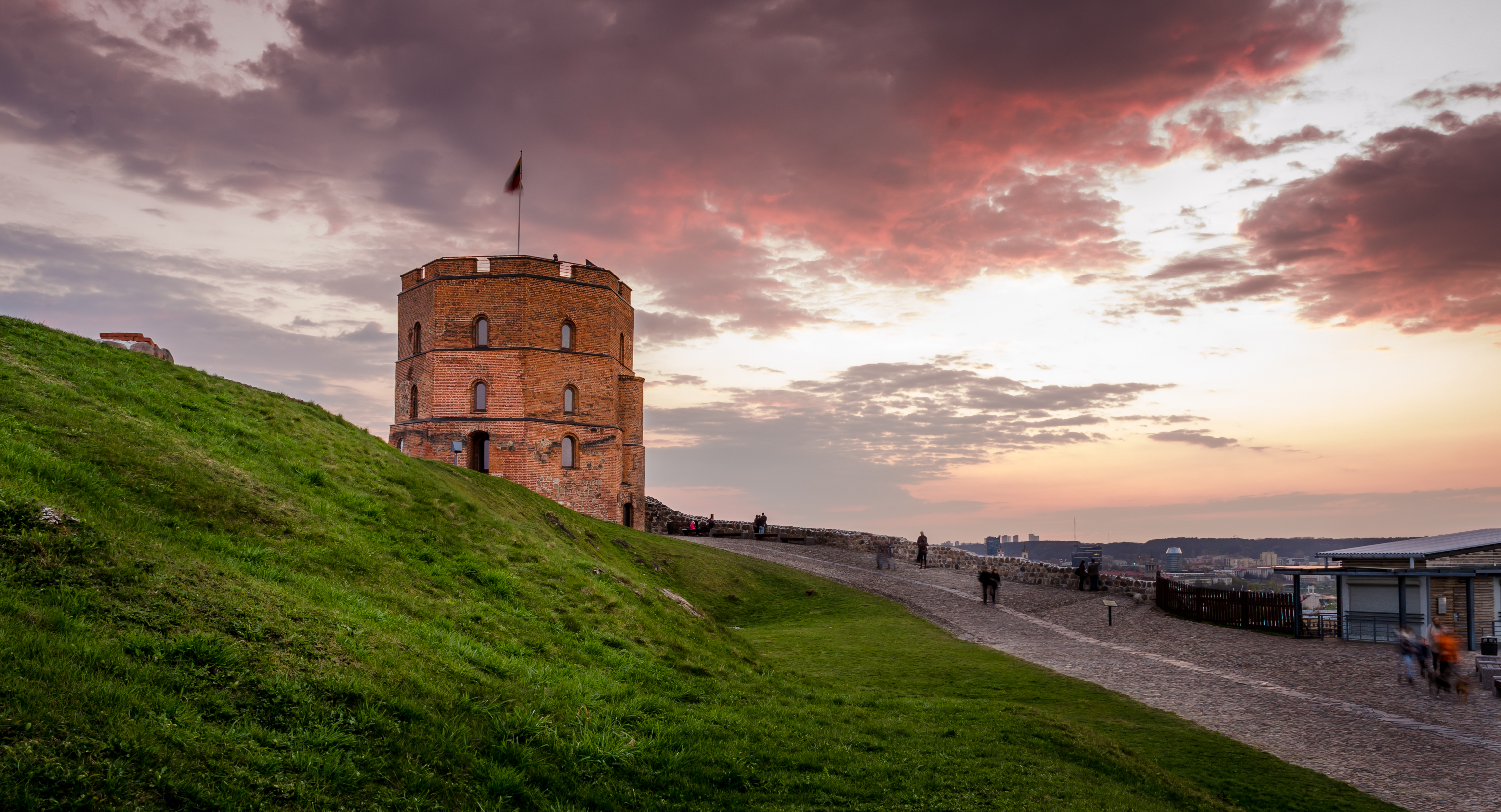 Vilnius Gediminas Tower pictured in spring.